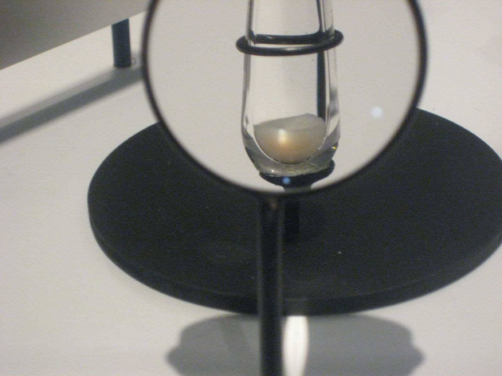 This test tube contains 1.2 mg (1/25,000 oz..) of small diamond crystals isolated from the Allende meteorite, suspended in an acid and alcohol solution. This diamond dust is billions of years old and predates our solar system.